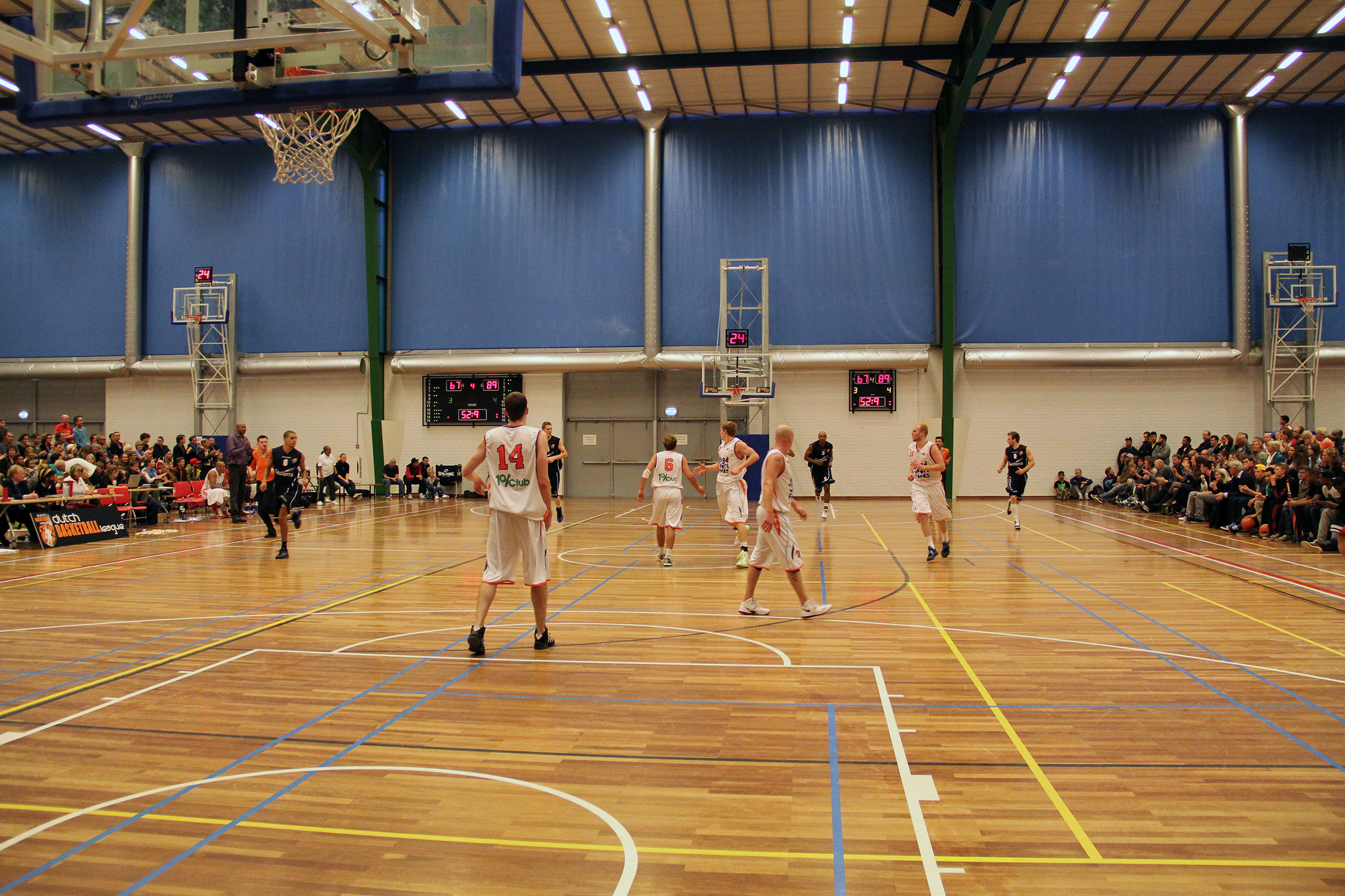 The basketball game BC Apollo - GasTerra Flames in the Apollohal in Amsterdam, the Netherlands on October 14, 2012.